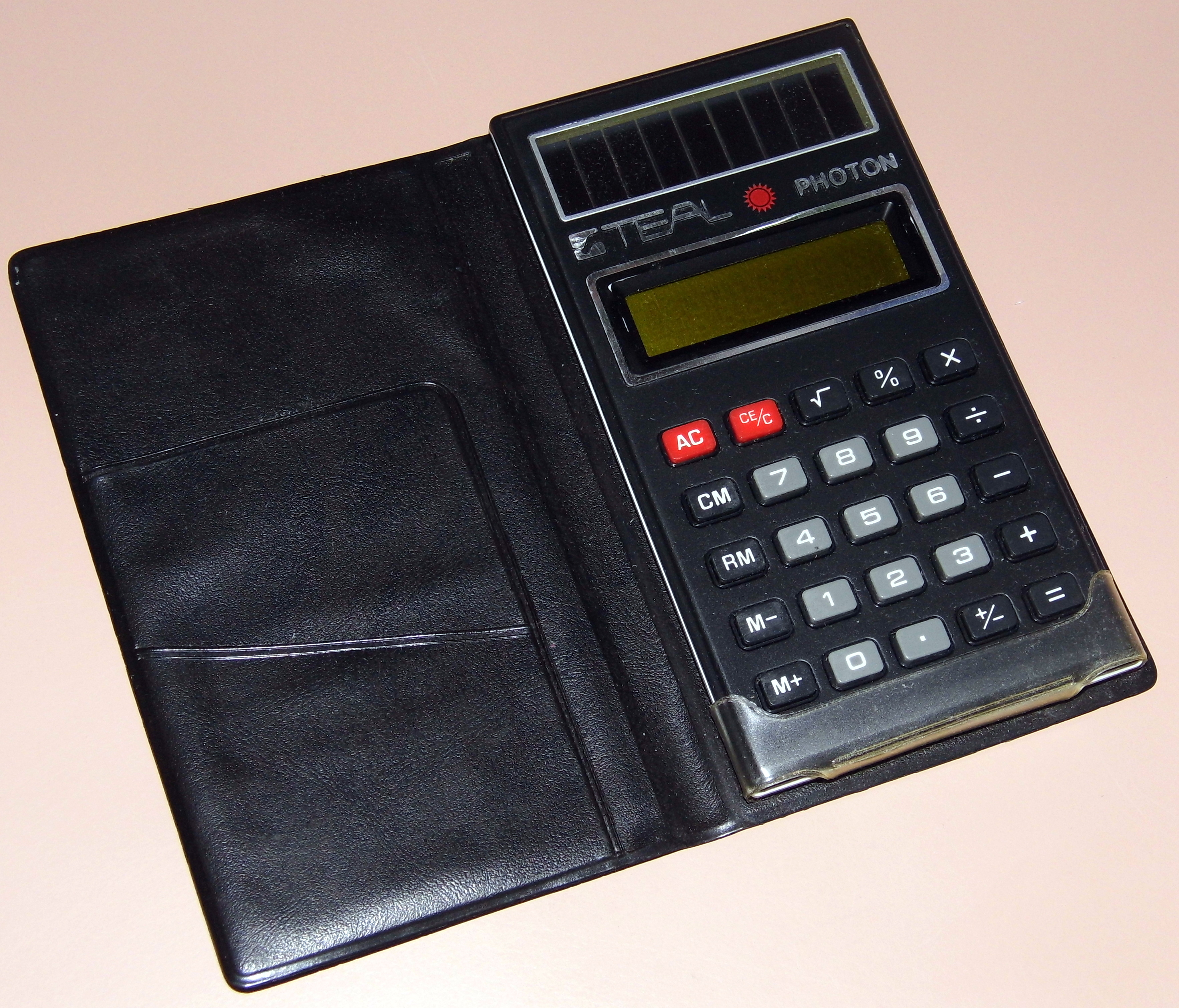 Vintage Teal Photon Solar Powered Electronic Pocket Calculator, LCD With Yellow Filter, One Of The First Solar Powered Calculators, Made In Japan, Circa 1978